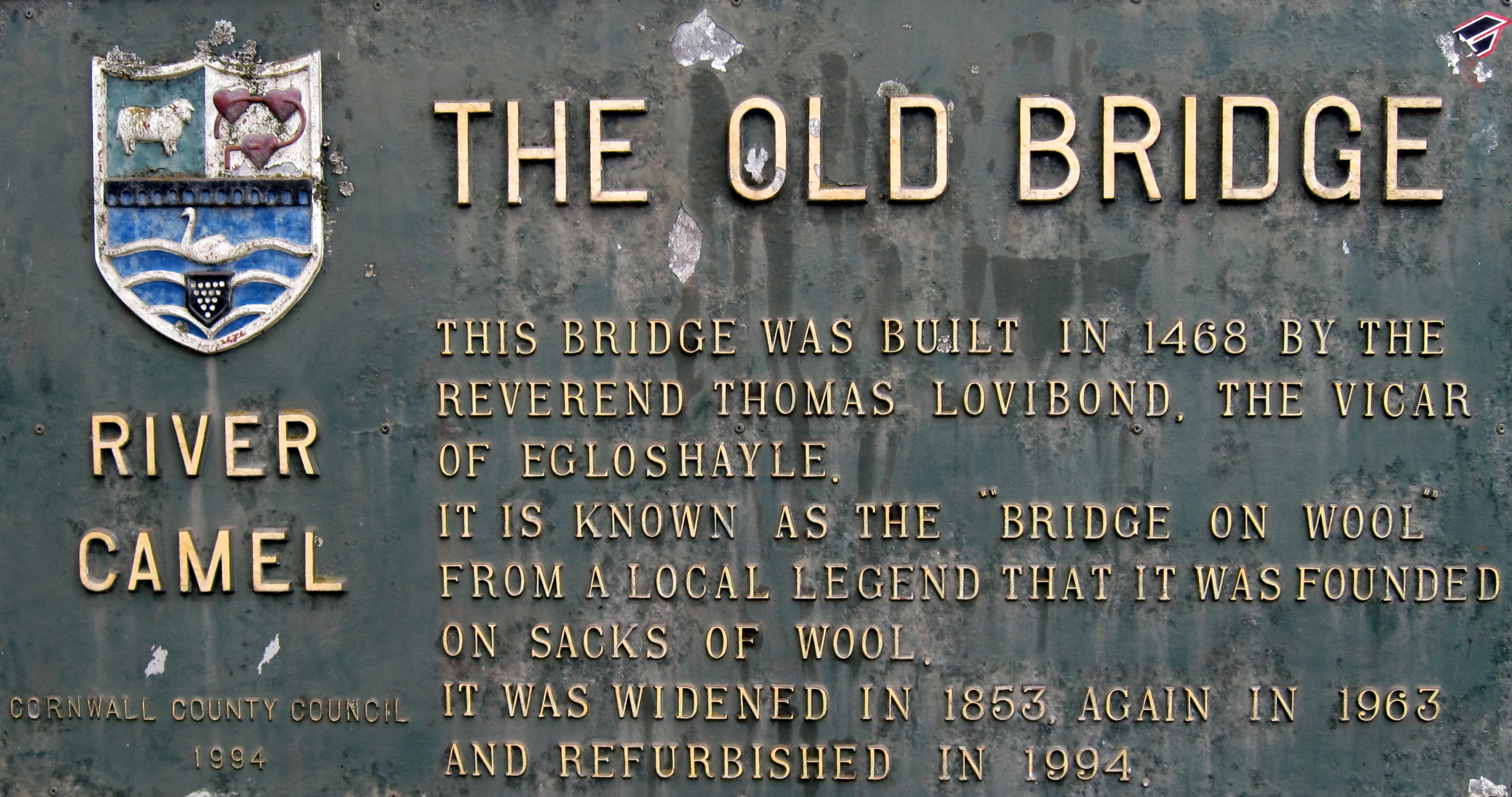 Information plaque at the west end of the Old Bridge, Wadebridge, Cornwall